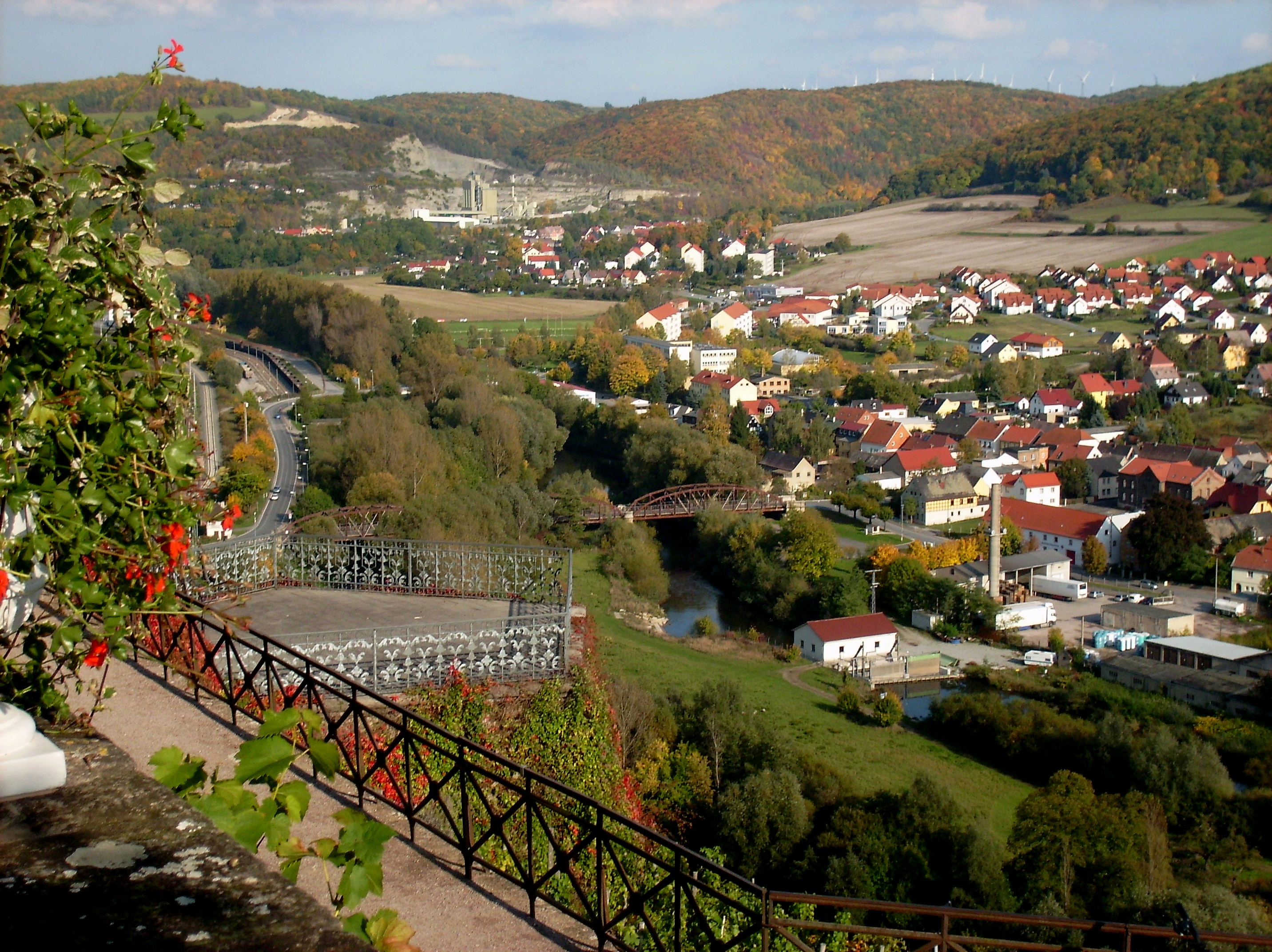 View of the Saale valley with the village of Dorndorf and Carl Alexander Bridge from the terrace at the Dornburg Castles (Dornburg-Camburg, district of Saale-Holzland-Kreis, Thuringia)